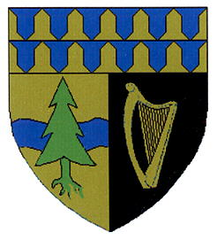 Coat of arms of Altlengbach, Lower Austria